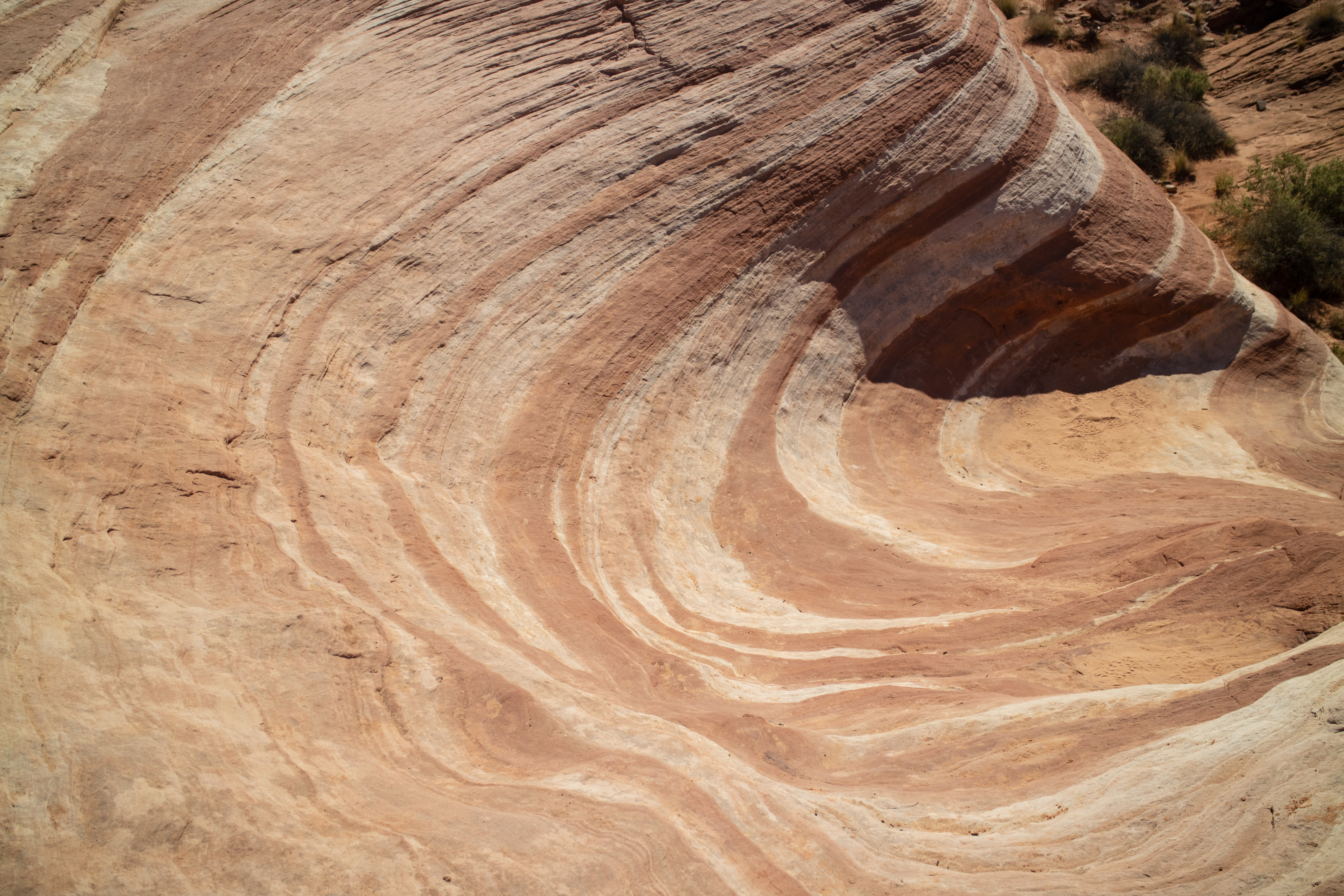 Nevada's Valley of Fire has its own sandstone wave, reminiscent to one of the same name near Kanab, Utah and located in northern Arizona.